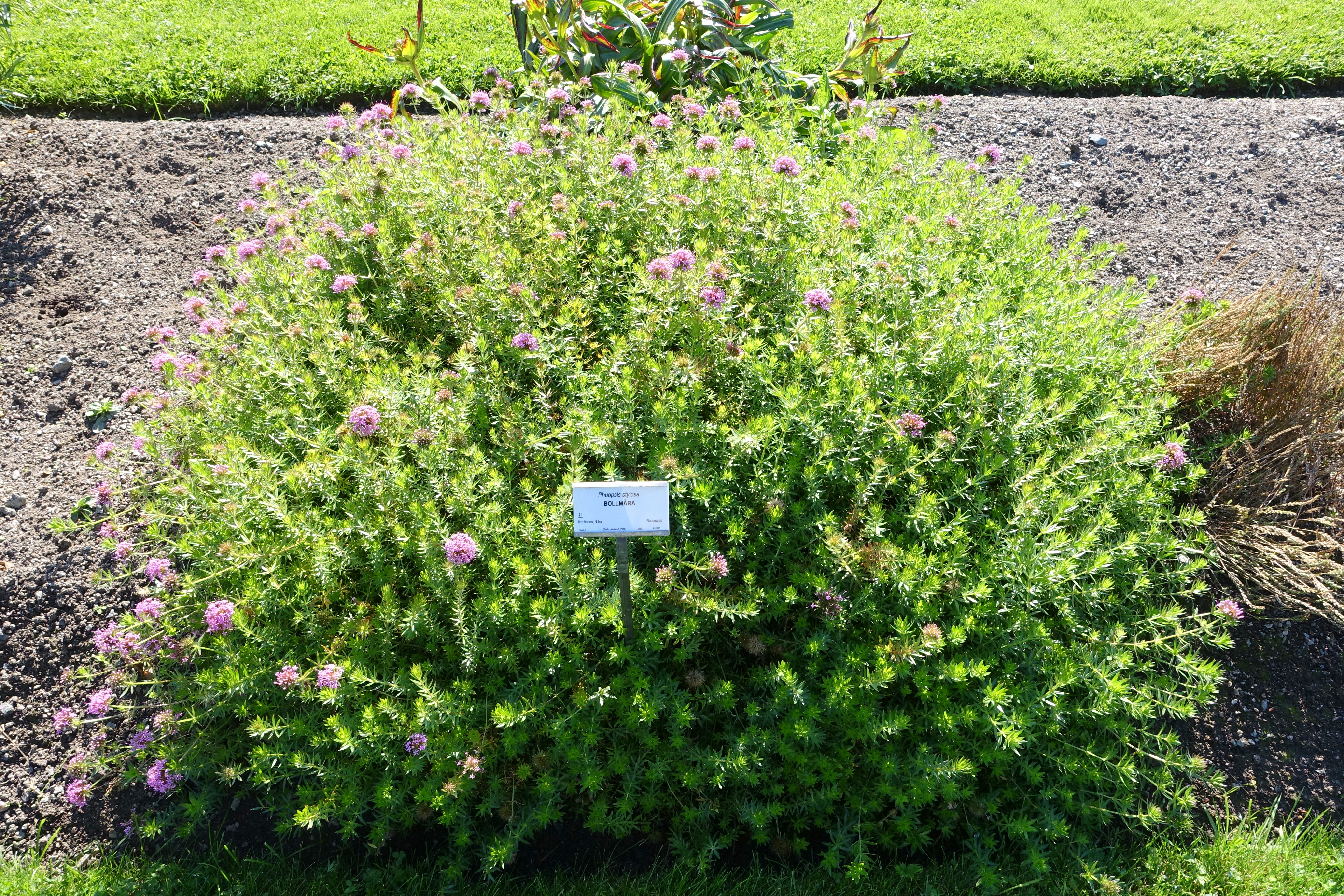 Botanical specimen in the Bergianska trädgården - Stockholm, Sweden.